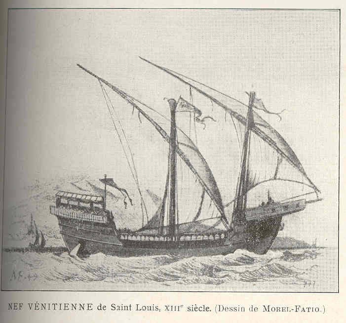 Venitian nau of Saint Louis, 13th century